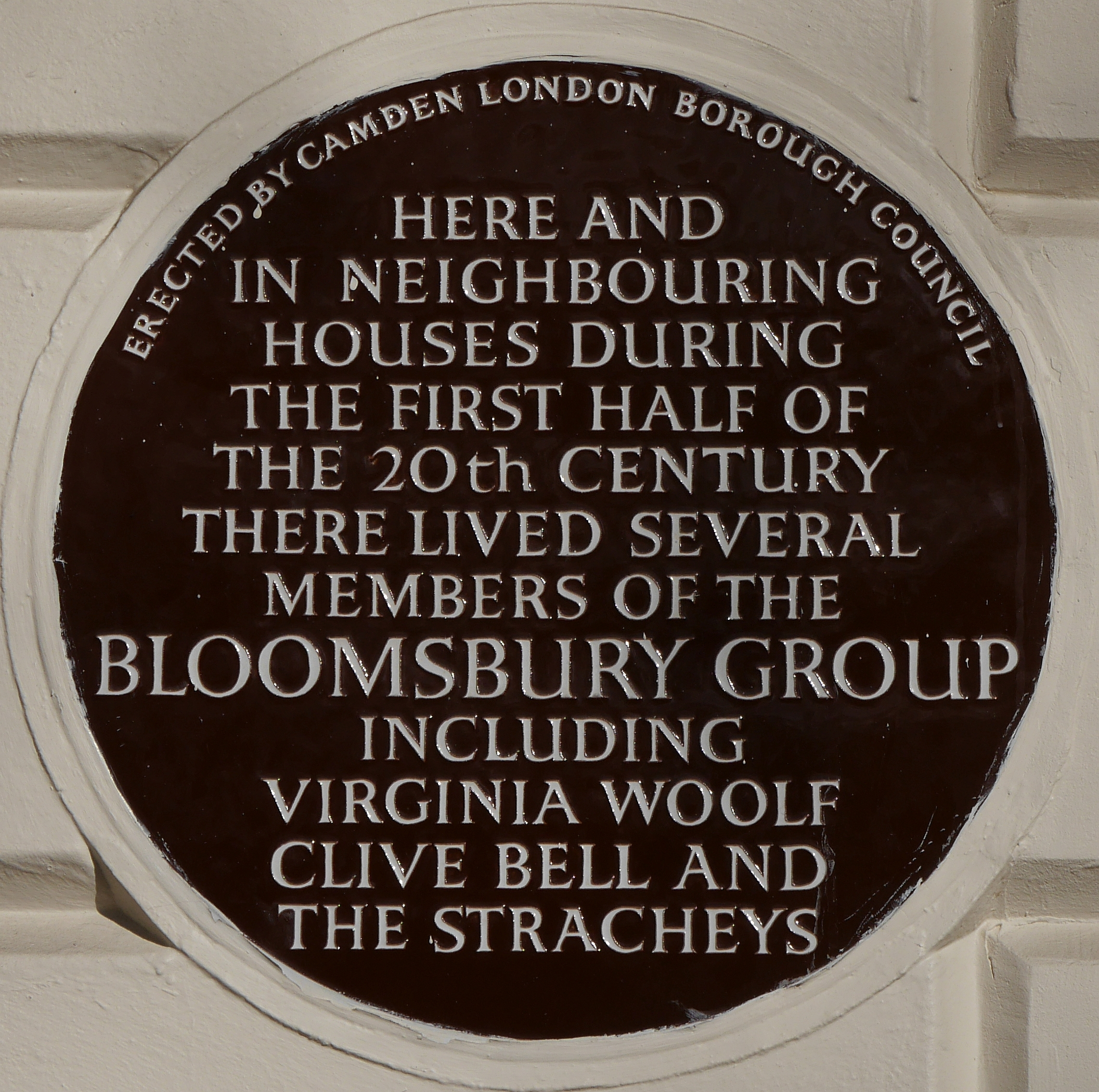 Bloomsbury Group 51 Gordon Square blue plaque